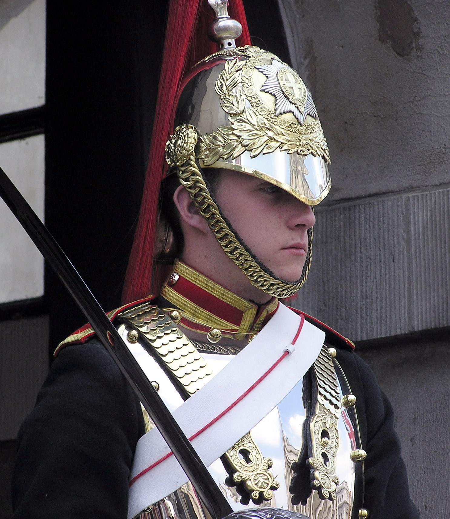 A Trooper of the Blues and Royals on mounted duty in Whitehall, London, England. Photographed by Adrian Pingstone in June 2005 and released to the public domain.